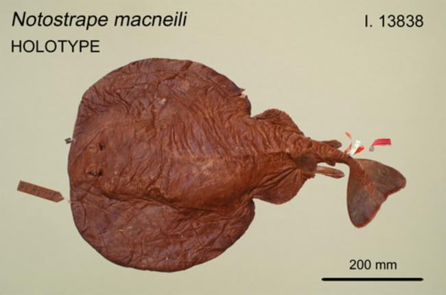 Holotype of the short-tail torpedo ray, Tetronarce macneilli, from off Green Cape, New South Wales - AM I.13838